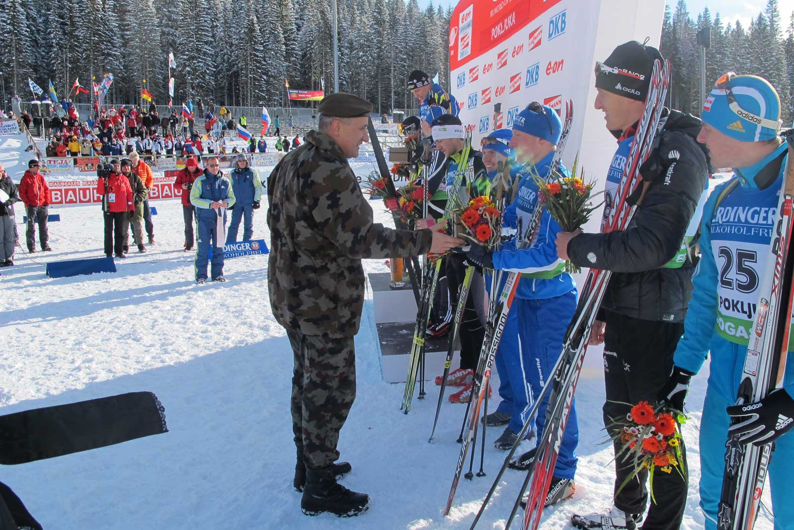 Pokljuka biathlon world cup in 2010, men's individual race podium